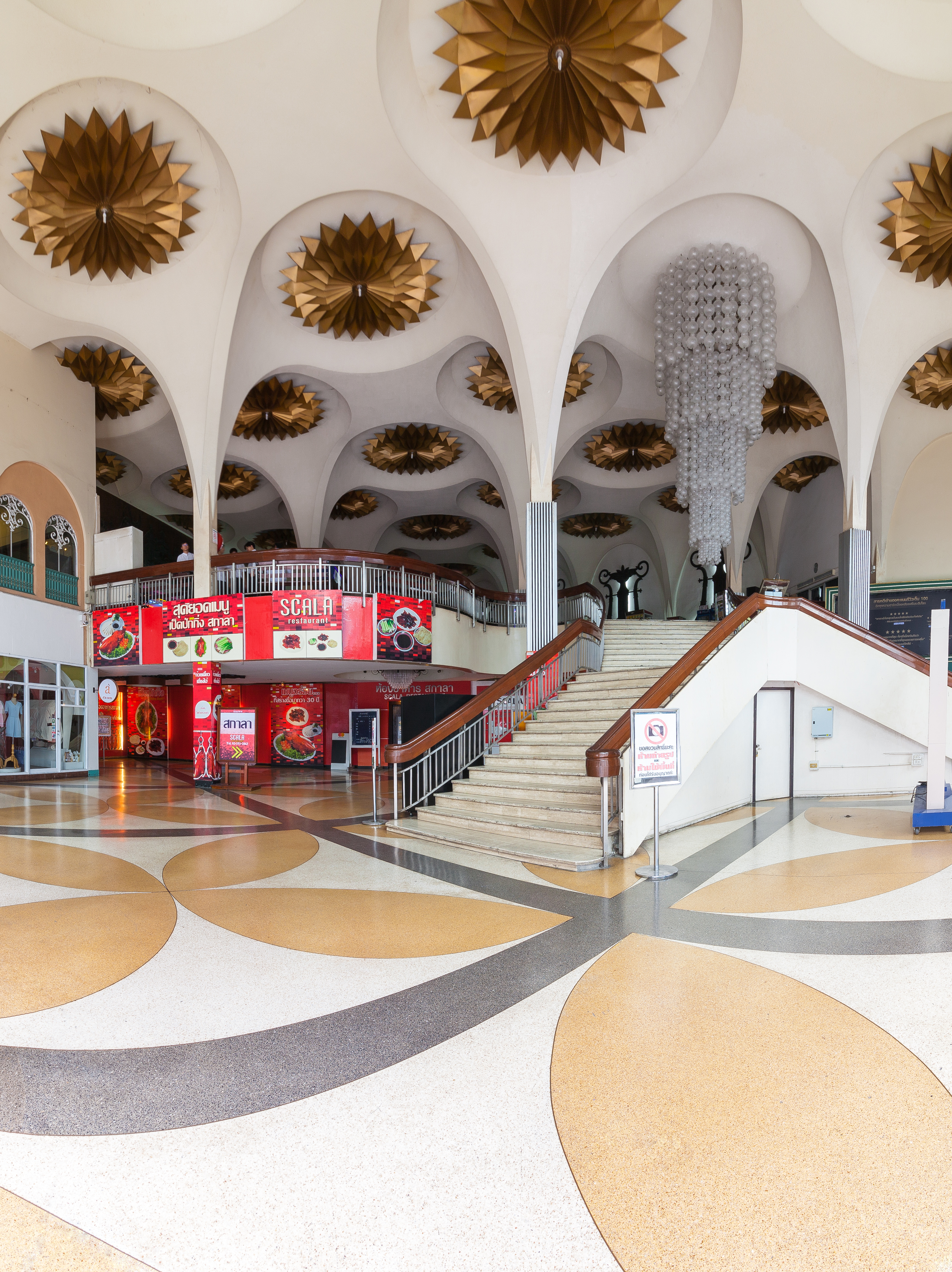 The Scala is a historic cinema in Bangkok, Thailand. It is located in the Siam Square shopping area, and forms part of the Apex group of cinemas. Opened in 1969, the Scala is the last remaining operational standalone single-screen cinema in the country, and today continues to offer a retro filmgoing experience.